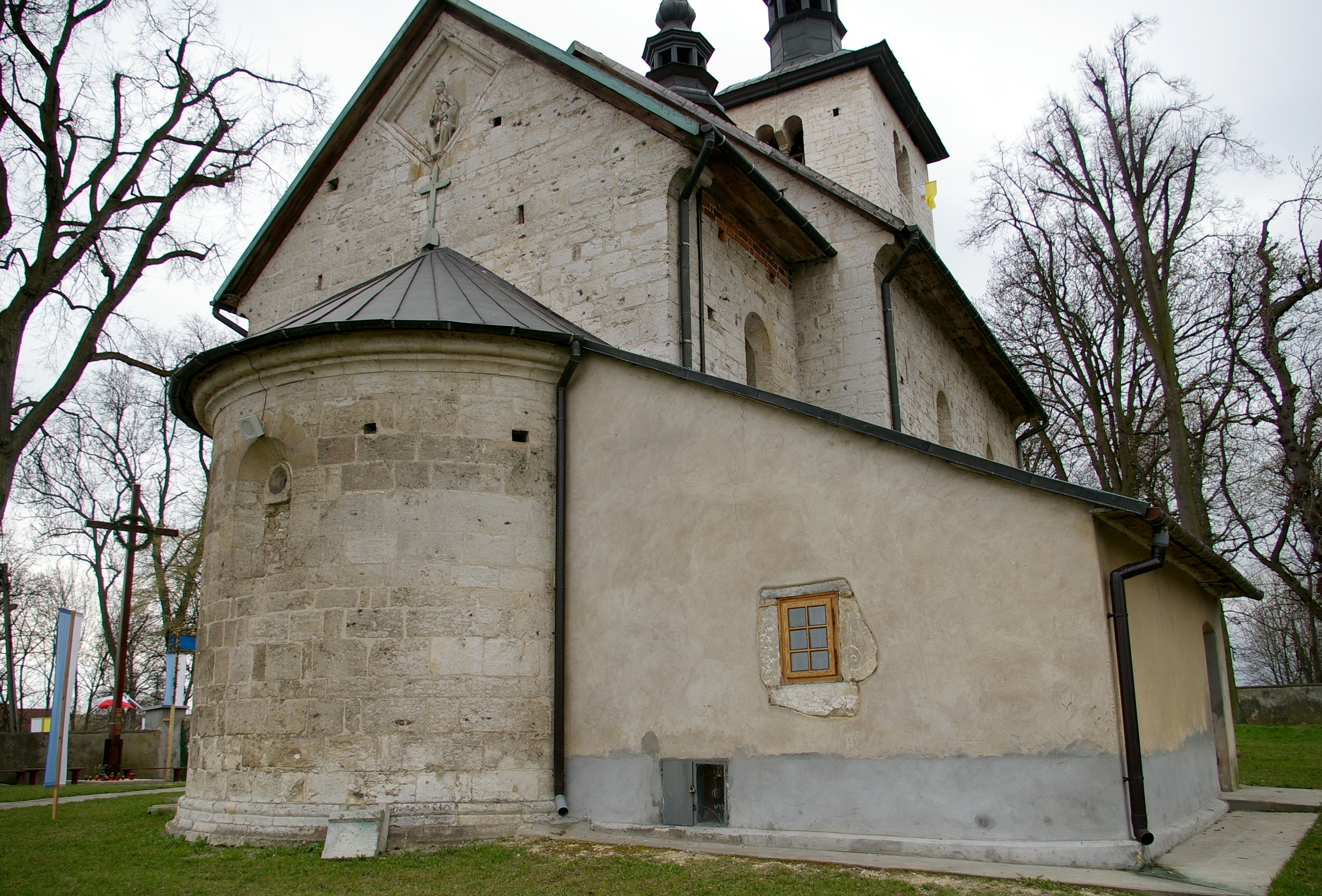 Church of St. Nicholas in Wysocice, Poland